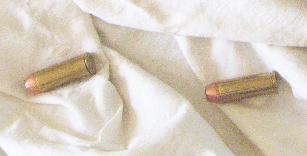 Two .480 Ruger Cartridges